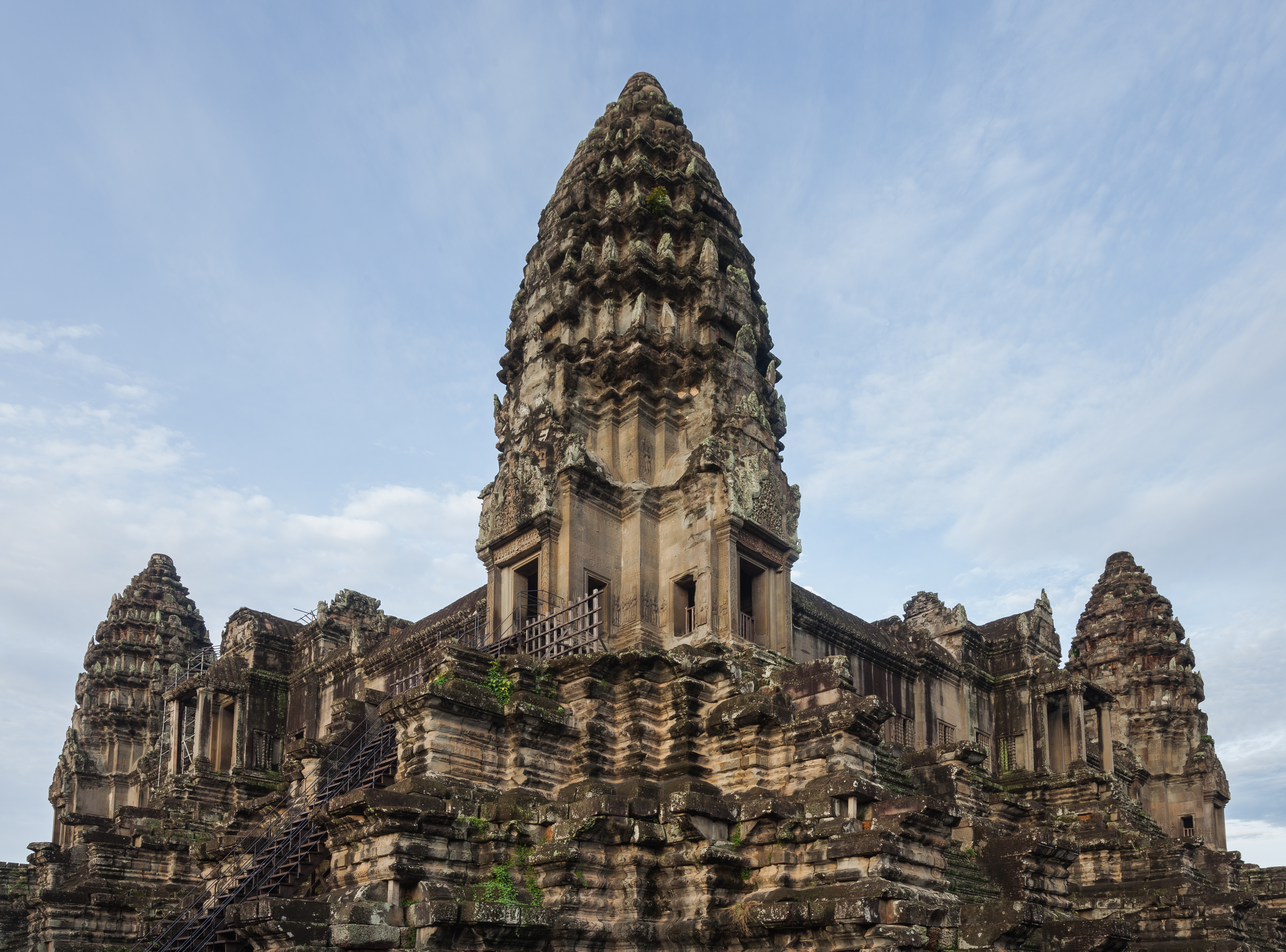 Angkor Wat, Cambodia